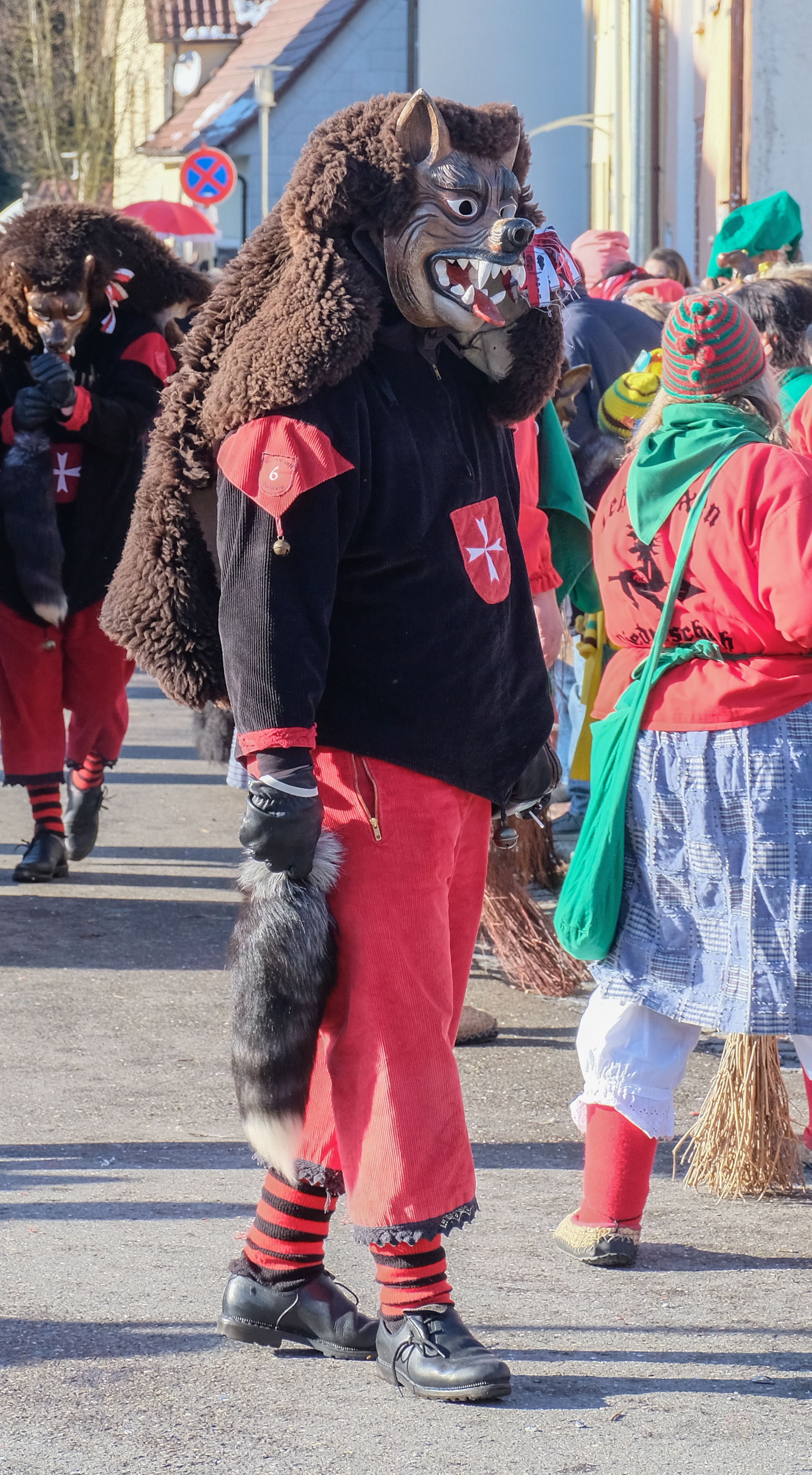 Carnival figure Wiegemer Wolf, Weigheim, Villingen-Schwenningen, district Schwarzwald-Baar-Kreis, Baden-Württemberg, Germany